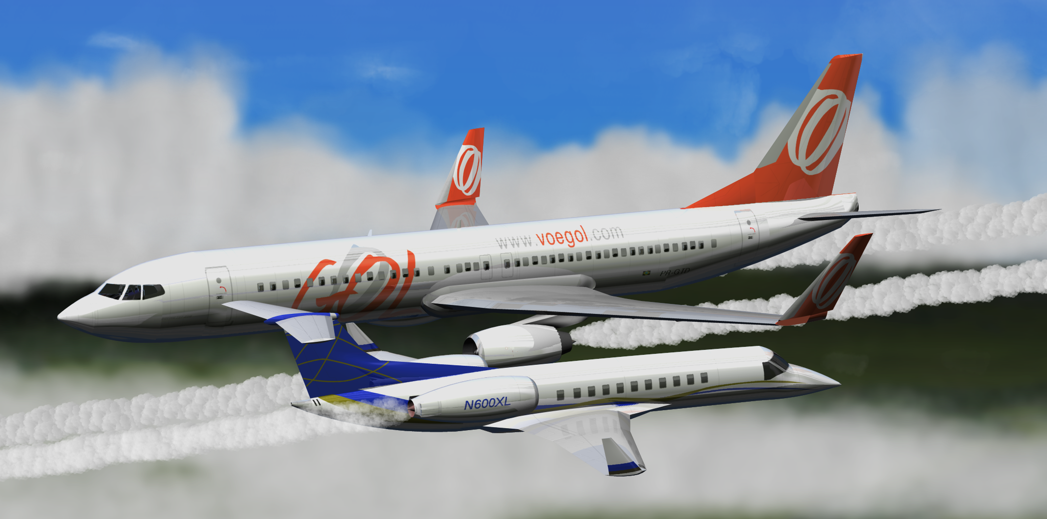 Gol Transportes Aéreos Flight 1907 - CGI Image of collision